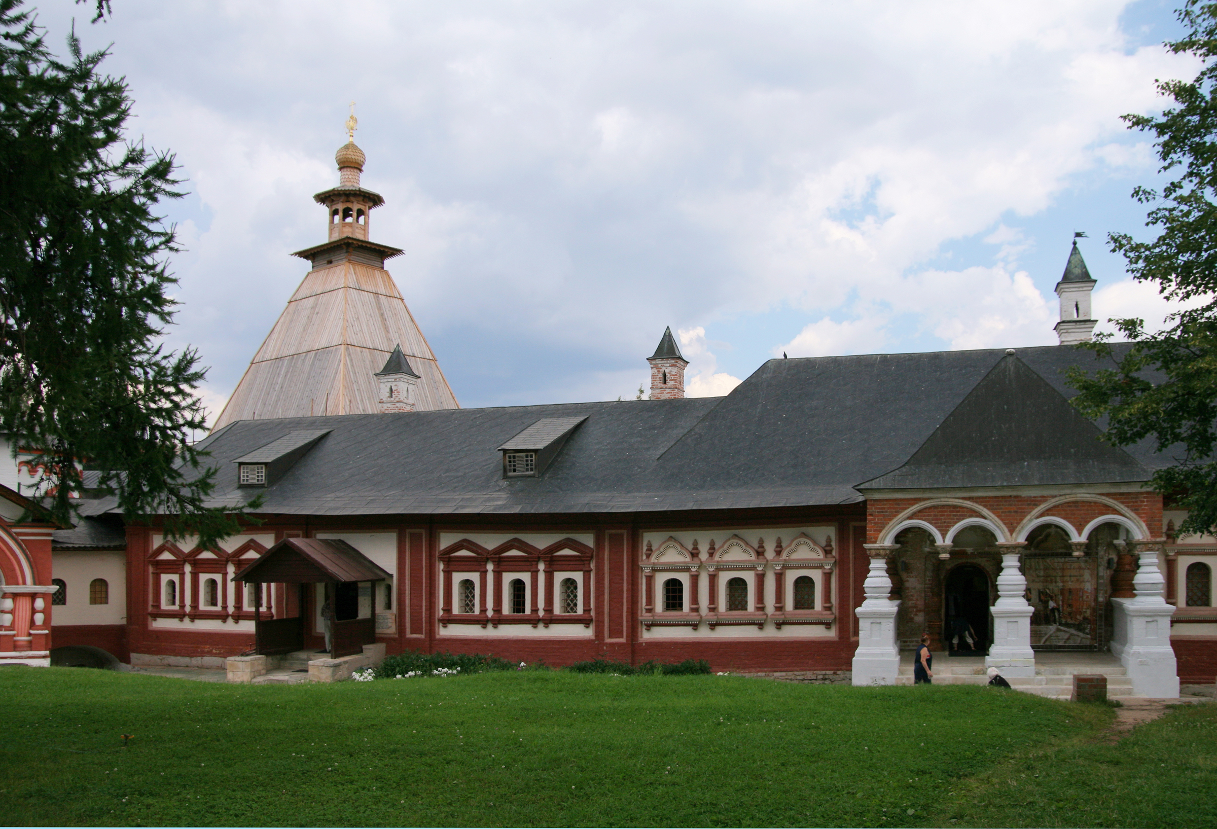 Tsarina's Chamber in Savvino-Storozhevsky Monastery, XVII c